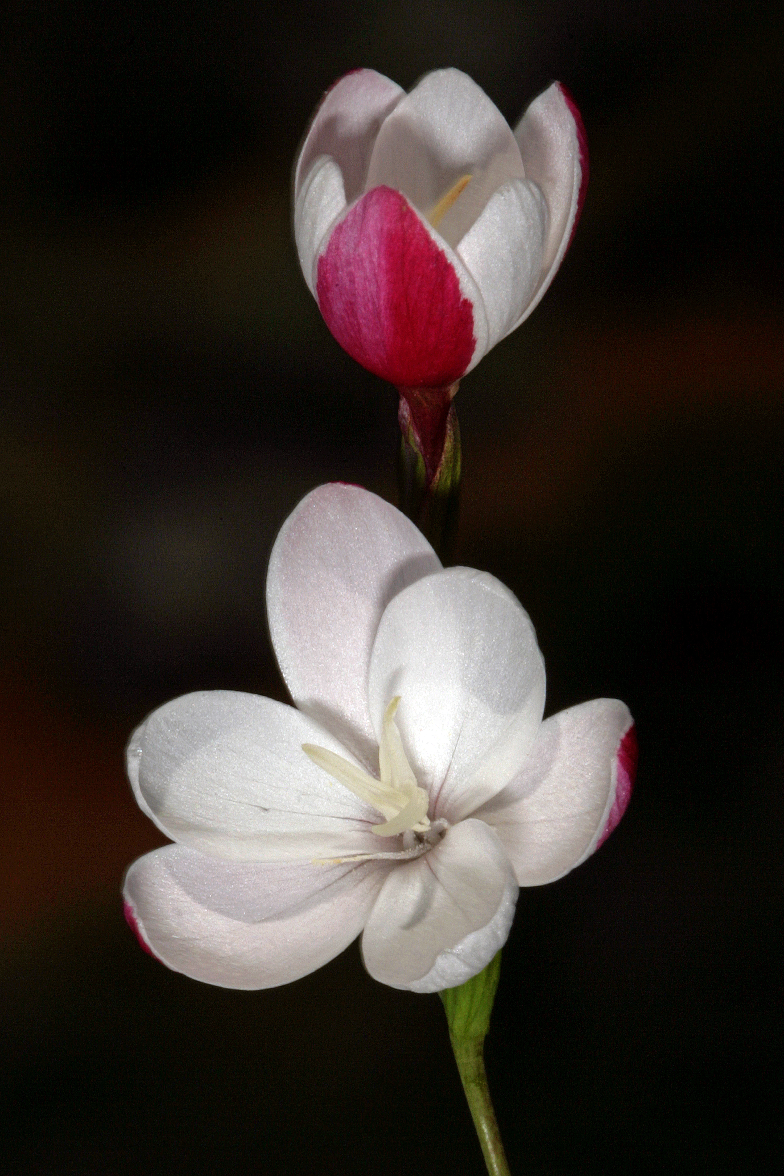 Hesperantha cucullata, flowers (form with relatively round tepals); farm Oorlogskloof, Nieuwoudtville, Norrthern Cape, South Africa